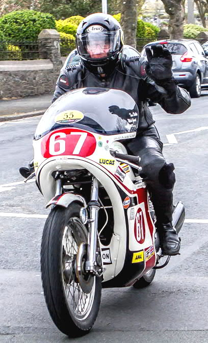 A Slippery Sam replica, part of Geoff Duke's funeral cortege leaving from the TT Grandstand, with many bike riders enjoying a ride-out following Duke's last lap of the Snaefell Mountain Course